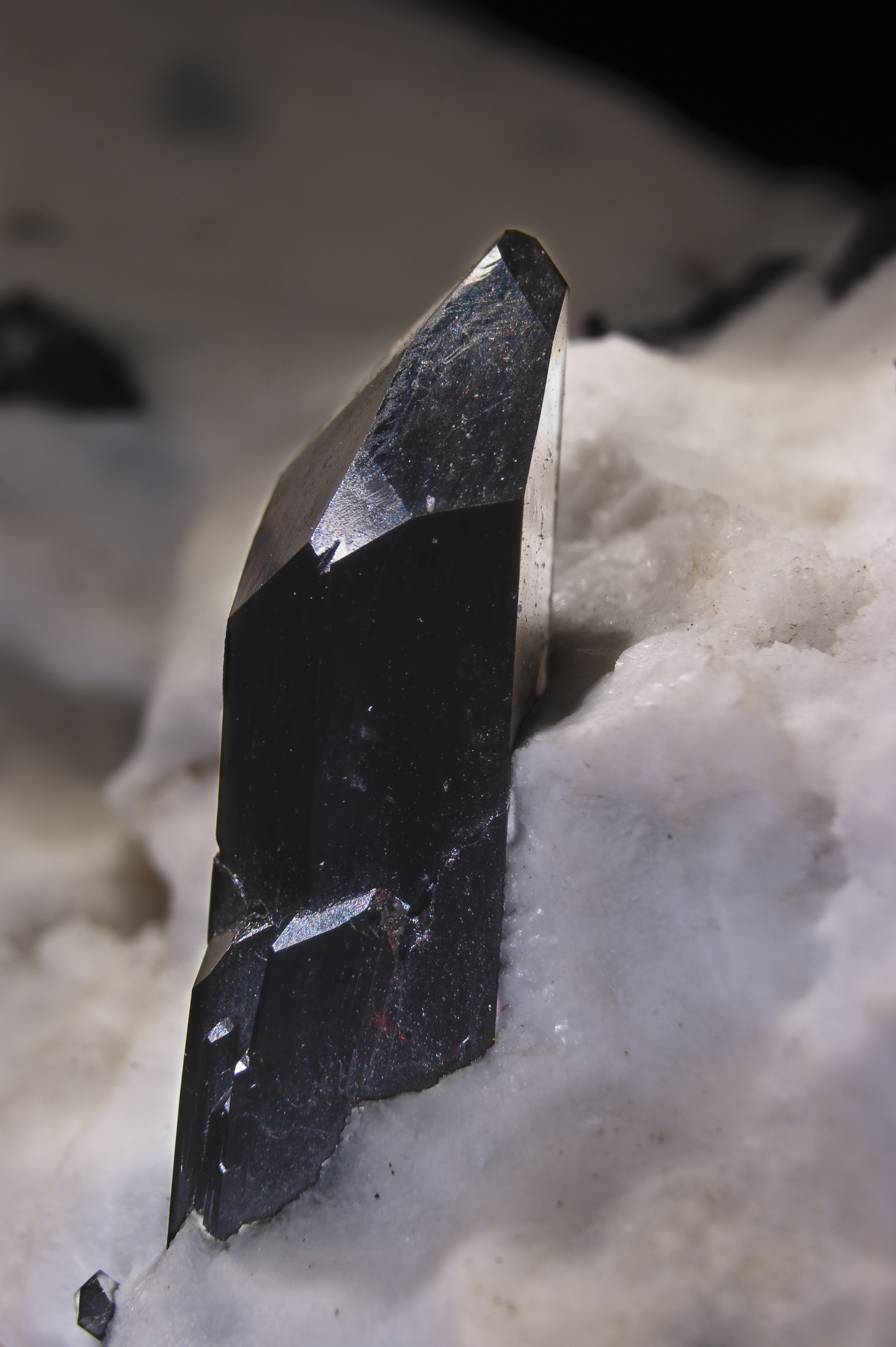 Neptunite Locality : Dallas Gem Mine (Benitoite Mine; Benitoite Gem Mine; Gem Mine), Dallas Gem Mine area, San Benito River headwaters area, New Idria District, Diablo Range, San Benito Co., California, USA Size : (Crystal size 2.5 cm)